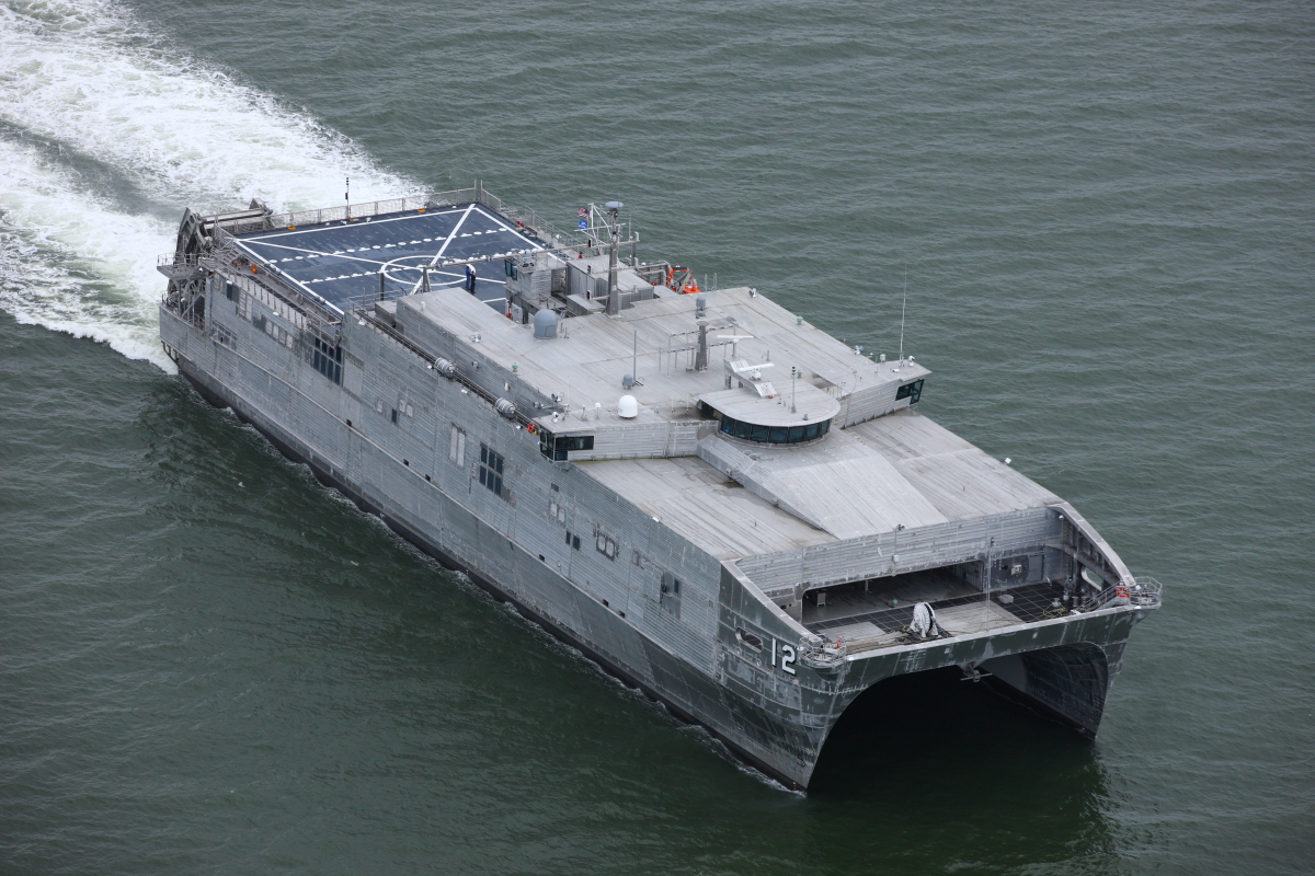 MOBILE, Ala. - The U.S. Navy’s twelfth Expeditionary Fast Transport (EPF) vessel, USNS Newport (EPF 12), successfully competed Integrated Sea Trials, July 30.